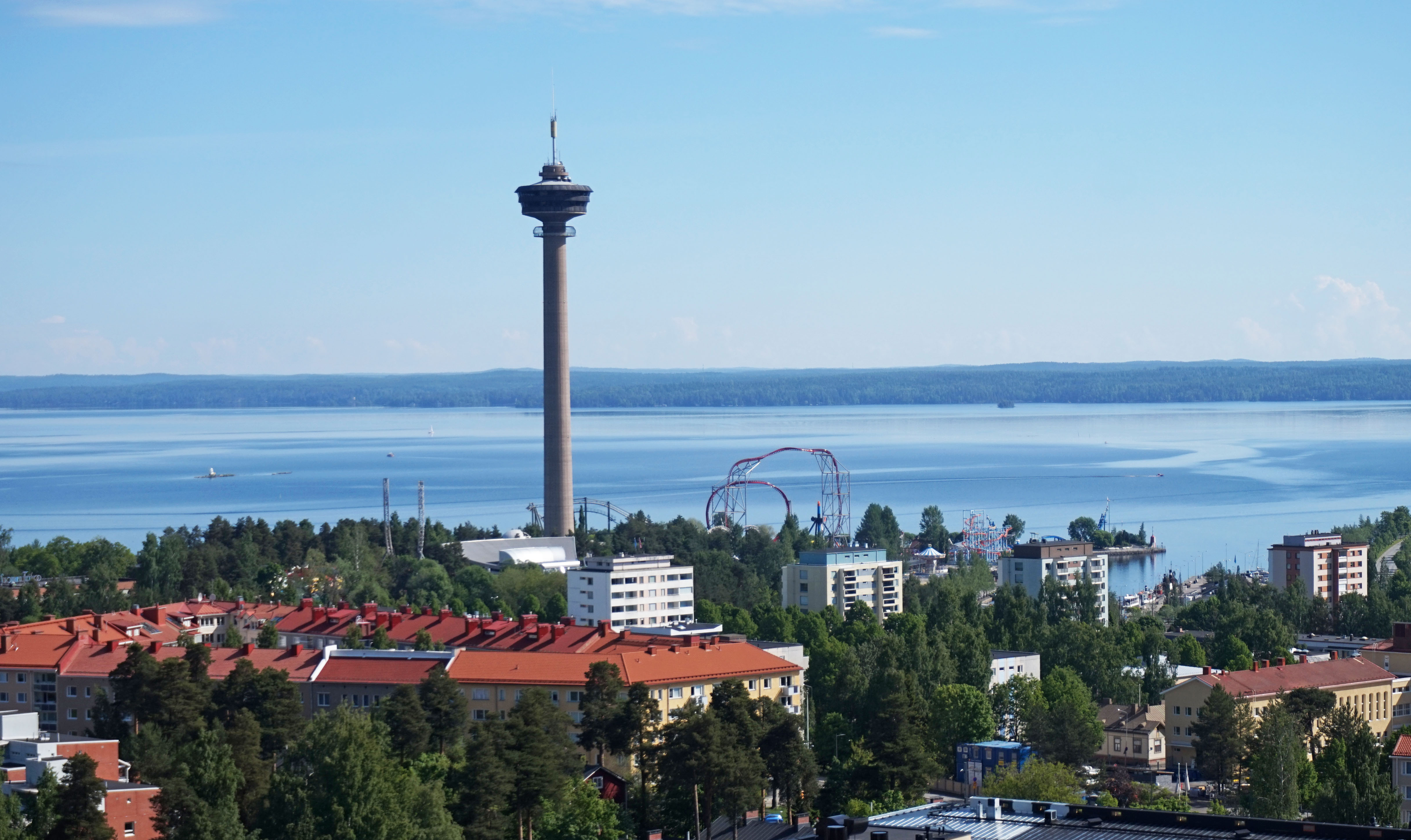 View from Pyynikki tower to Näsinneula in Tampere, Finland.This photograph was taken with a Sony ILCE-5000